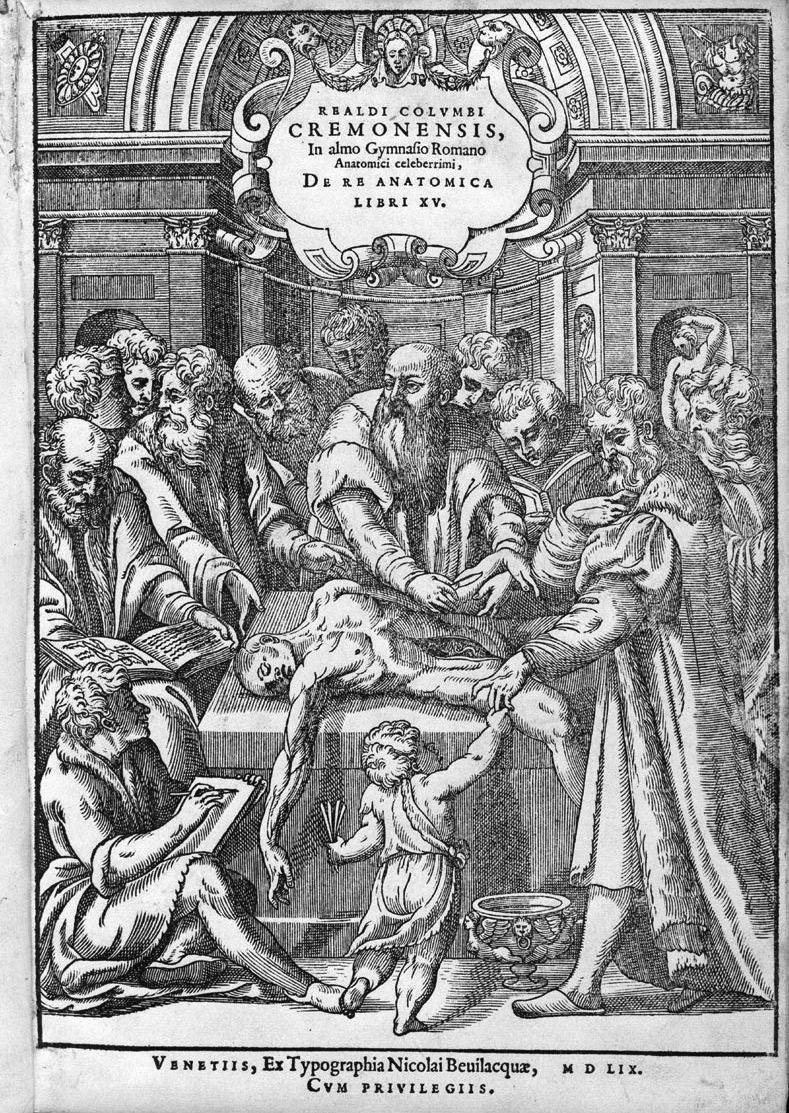 Realdo Colombo (1516?-1559). Realdi Columbi Cremonensis, in almo Gymasio Romano Anatomici celeberrimi, De re anatomica, libri XV. Venetiis: Ex Typographia Nicolai Beuilacquae, 1559. (Title page) Woodcut.